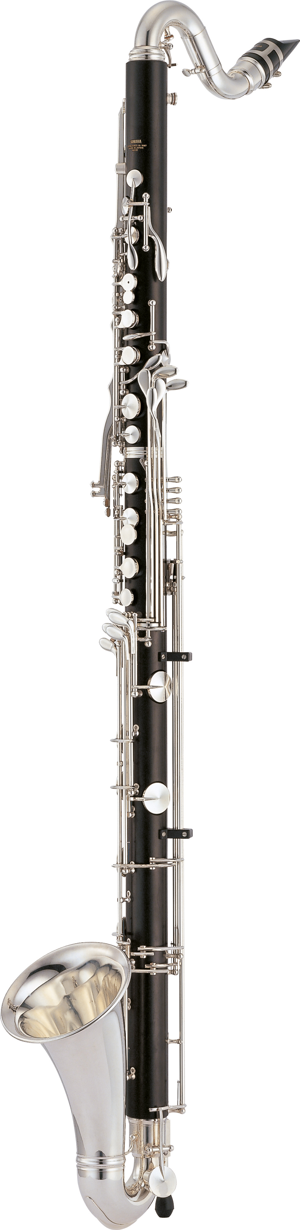 Yamaha Bass Clarinet, model YCL-622 II. From the 600 series (professional series), silver-plated nickel silver keys and bell, grenadilla body, range to low C